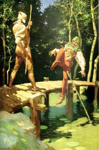 "With a furious stroke, the stranger struck Robin off his balance"